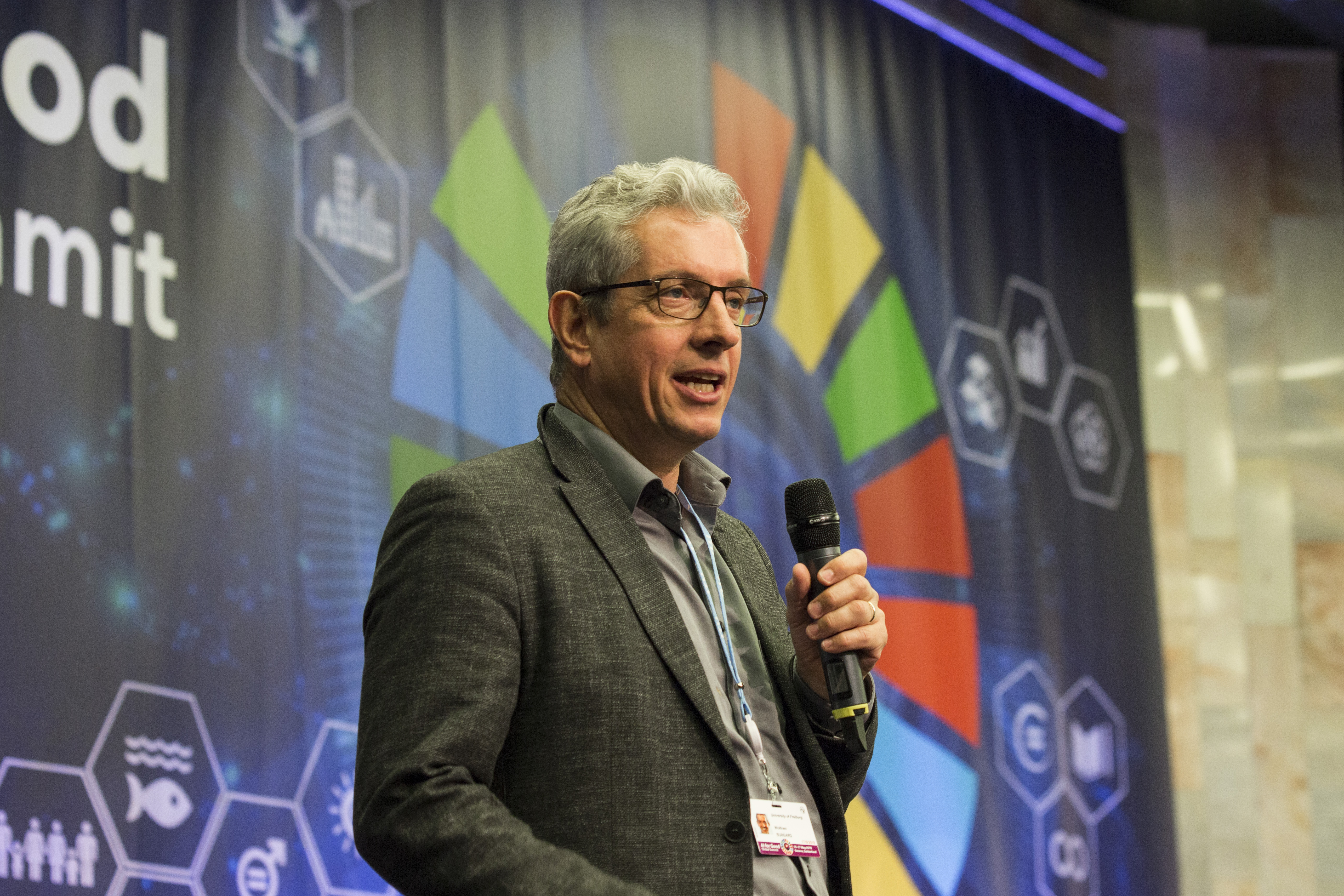 Wolfram Burgard, Professor of Computer Science, Albert-Ludwigs-Universität Freiburg speaking at the AI for Good Global Summit 2018 15-17 May 2018, Geneva ©ITU/D.Procofieff ITU (International Telecommunication Union)